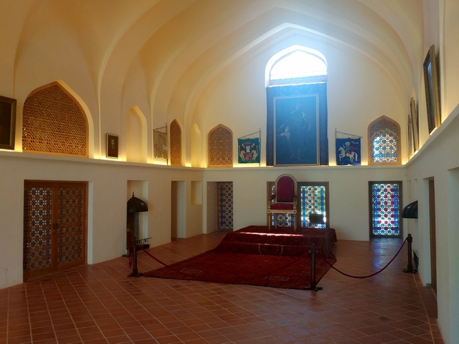 Throne room in King Erekle Palace. Telavi Museum. 2018